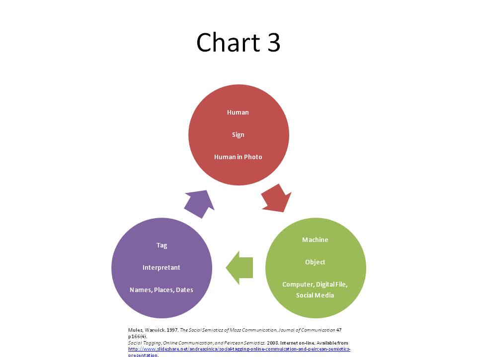 Semiotics of Social Networking